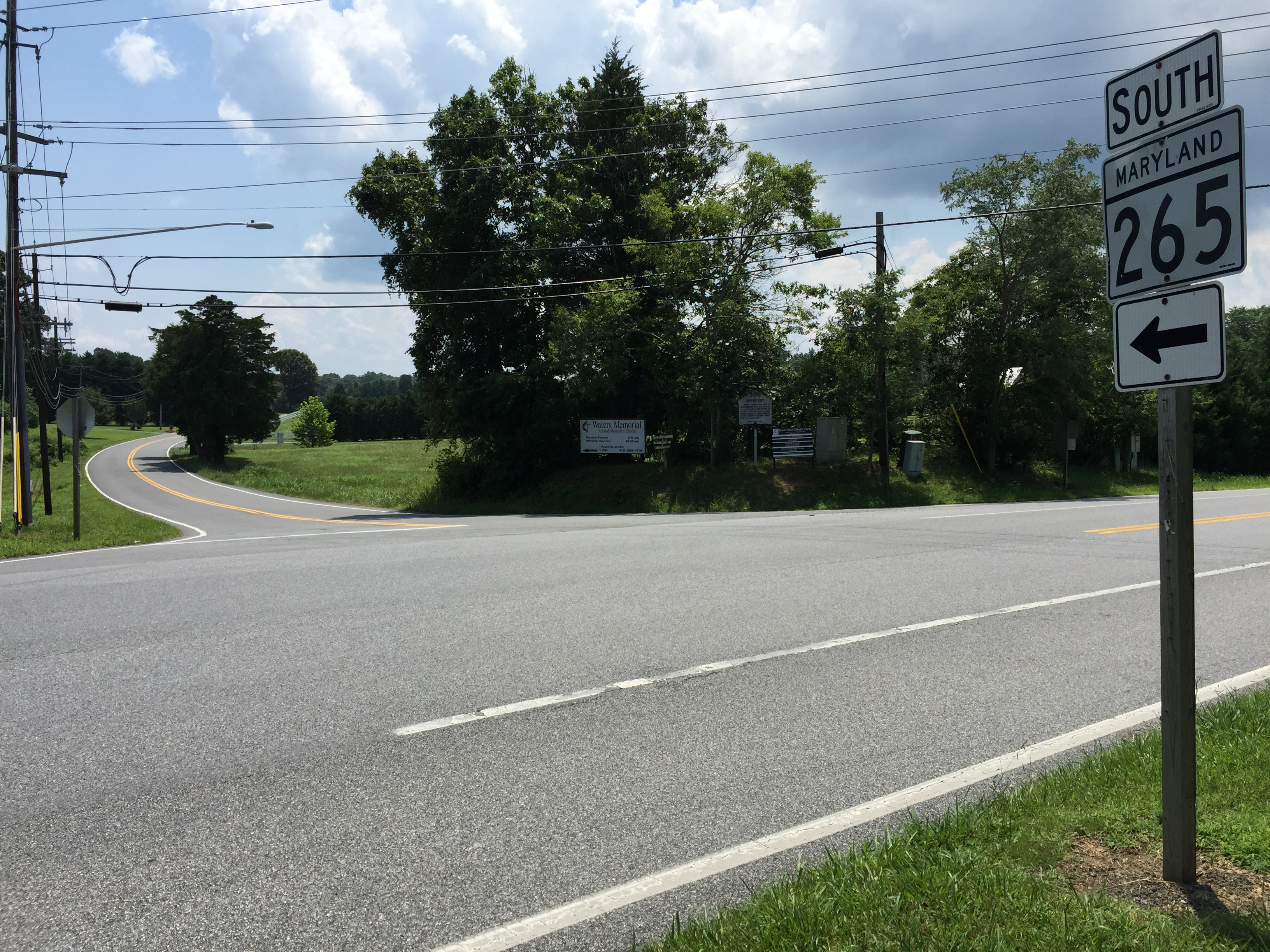 View south along Maryland State Route 265 (Mackall Road) at Maryland State Route 264 (Broomes Island Road) in Mutual, Calvert County, Maryland